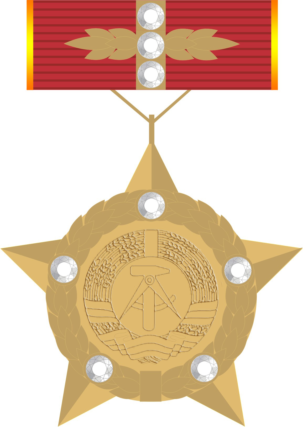 Gold star to a rank of the Hero of the German Democratic Republic